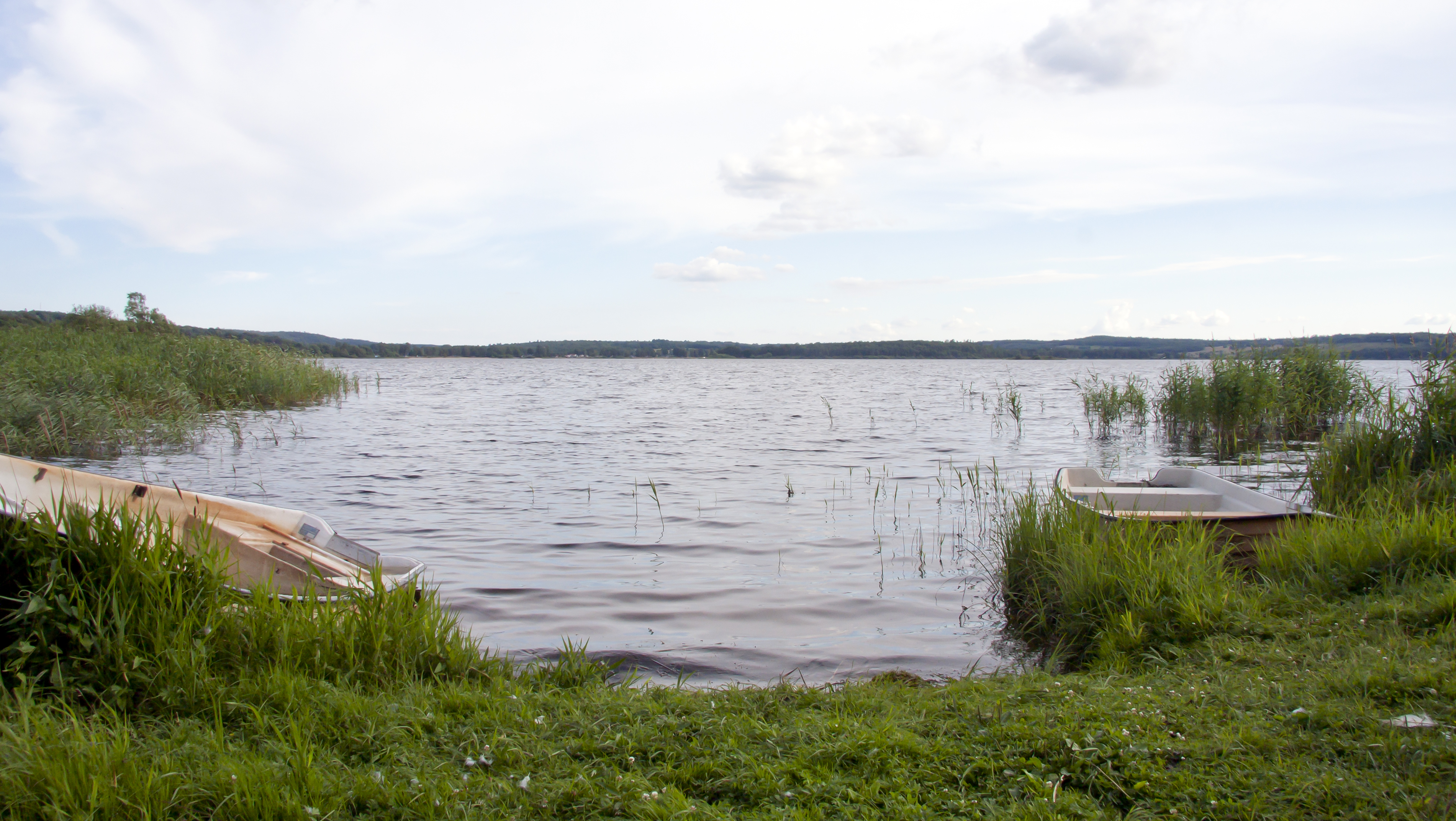 Finjasjön, a lake in Scania, Sweden.